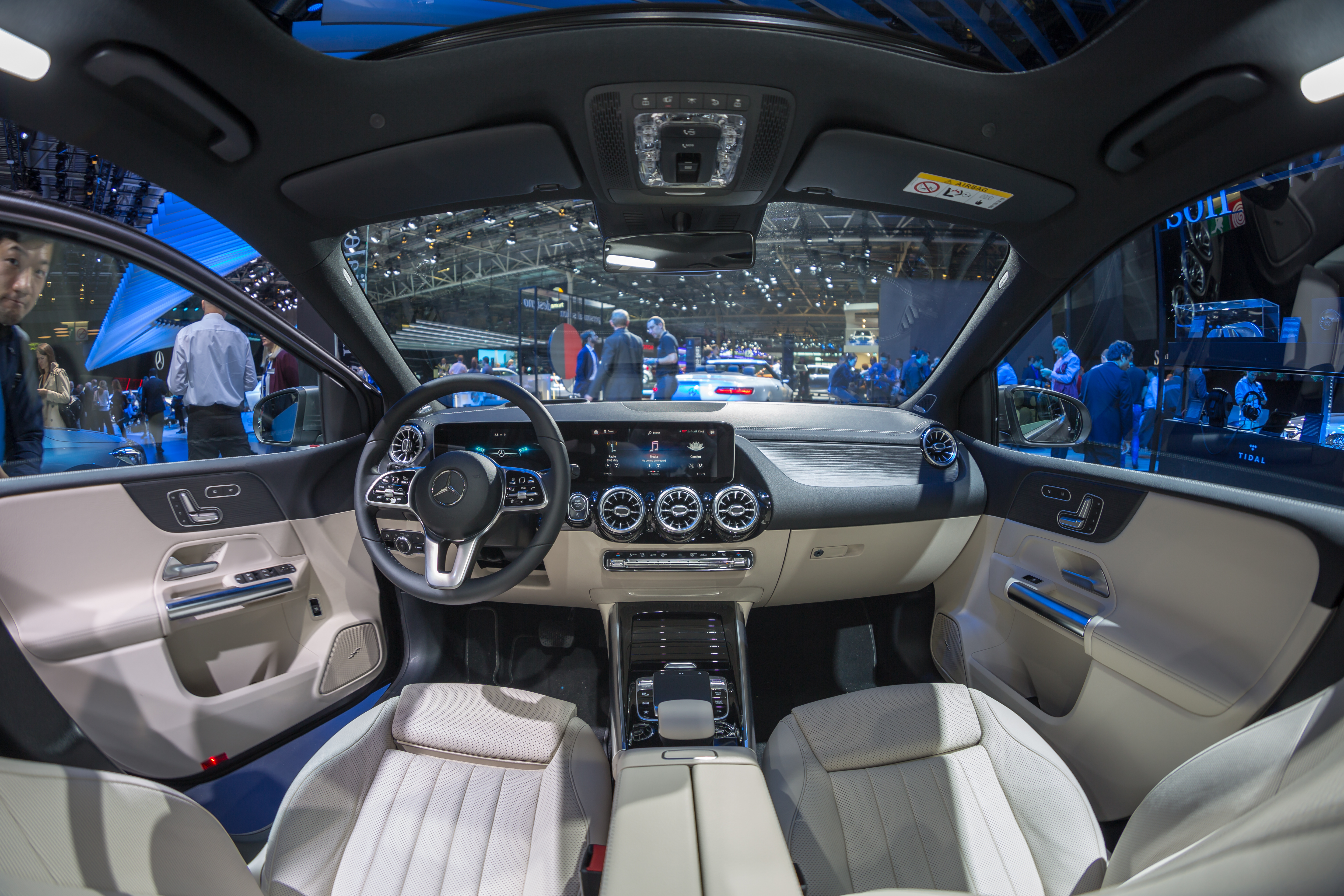 Mercedes, Mondiale Paris Motor Show 2018